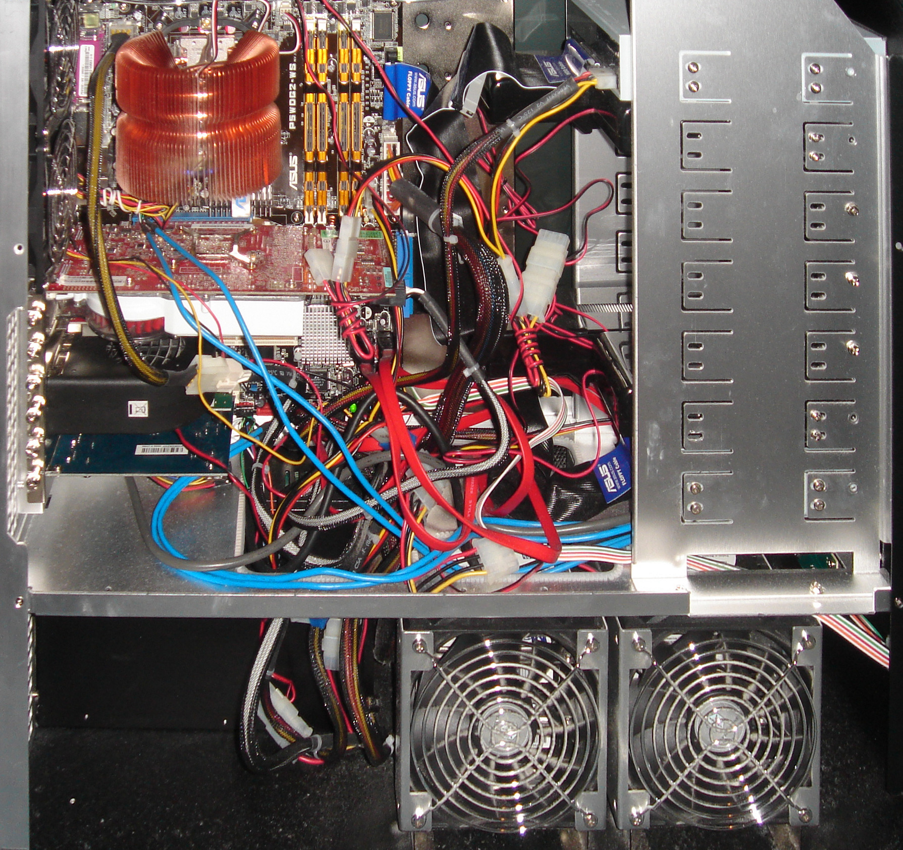 The insides of my PC (as of July 2006), with perspective correction applied. Mouseover to read notes. Note: The upper fans, and the hard drives are not visible. Notes do not include technical specifications. Parts (non-migrated): Intel Pentium 965 LGA775 3.73GHZ. 2MBX2 1066MHZ EM64T BOX EXTREME EDITION (1) Crucial Technology Ballistix 2GB (2 x 1GB) 240-Pin DDR2 SDRAM Unbuffered DDR2 800 (PC2 6400) Dual Channel (2) Western Digital Raptor WD1500ADFD 150GB 10,000 RPM 16MB Cache Serial ATA150 (2) SAPPHIRE 100150SR Radeon X1900XTX 512MB 256-bit GDDR3 VIVO PCI Express x16 Video Card (1) PC Power & Cooling Turbo-Cool 1KW EPS12V SLI, SSI Power Supply (1) SILVERSTONE SST-TJ07-B Black 4.0mm ~ 8.0mm uni-body aluminum outer frame, 2.0mm aluminum body ATX Full Tower (1) ASUS P5WDG2-WS Socket T (LGA 775) Intel 975X ATX Server Motherboard (1) addlogix KVM-201DVU-2AFC DVI KVM (1) Zalman USA CNPS 9500 LED Multi-Socket Processor Cooler (1) POWERCOLOR T55E-P03 PCI-Express x1 Interface TV tuner card (1) Logitech G15 2-Tone 104 Normal Keys USB Wired Standard Keyboard (1) SONY 16X DVD±R, 5X DVD-RAM Write DVD Burner (1) Gyration GO 2.4GHz Cordless GC1005M 2-Tone 6 Buttons 1x Wheel USB RF Optical Air Mouse (1) Intel Celeron D 336 Prescott 533MHz FSB 256KB L2 Cache LGA 775 64-Bit Processor w/ Execute Disable Bit - Retail (1) SeaSonic SSM-1508RA Power Monitor - Retail (1) BELKIN Hi-speed USB 2.0 5-Port PCI Card (1) Ultra 5.25" Bay Freezer with 2 - 60mm Cooling Fans - Black (2) 8-Pin (EPS12V) Extension Cable 12 Inches - Sleeved (1) Antec Super Cyclone Blower (1) 3.5" to 5.25" Floppy Mounting Kit (Black) (1) SONY Black 1.44MB 3.5" Internal Floppy Drive Model MPF920 Black - OEM (1)